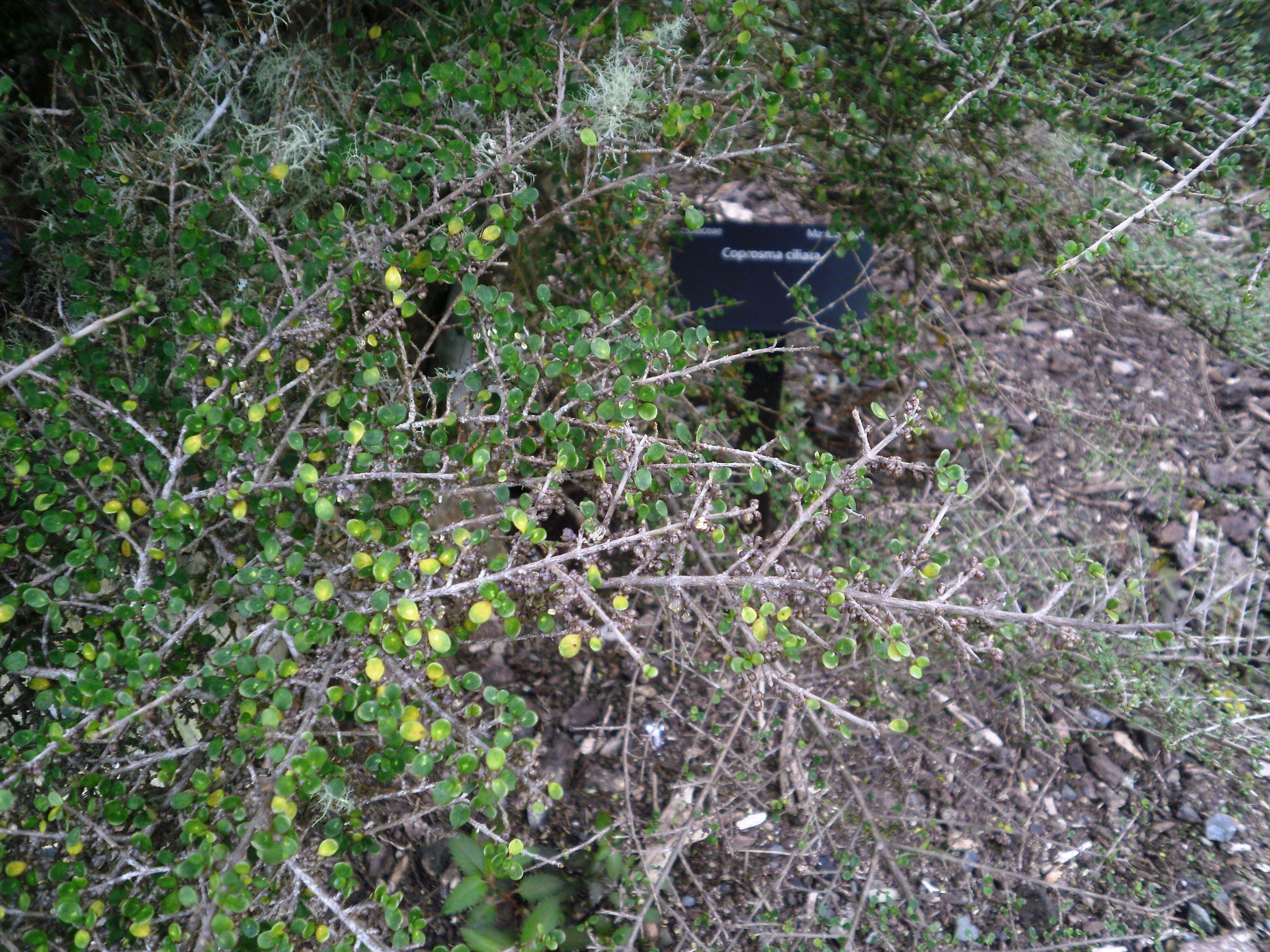 Coprosma ciliata, at Otari-Wilton's Bush, Wellington, New Zealand.